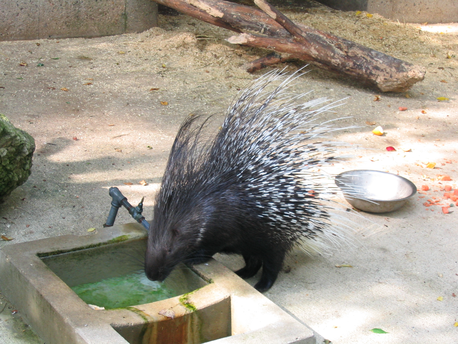 Crested porcupine in captivity. Henry Vilas Zoo, Madison, Wisconsin